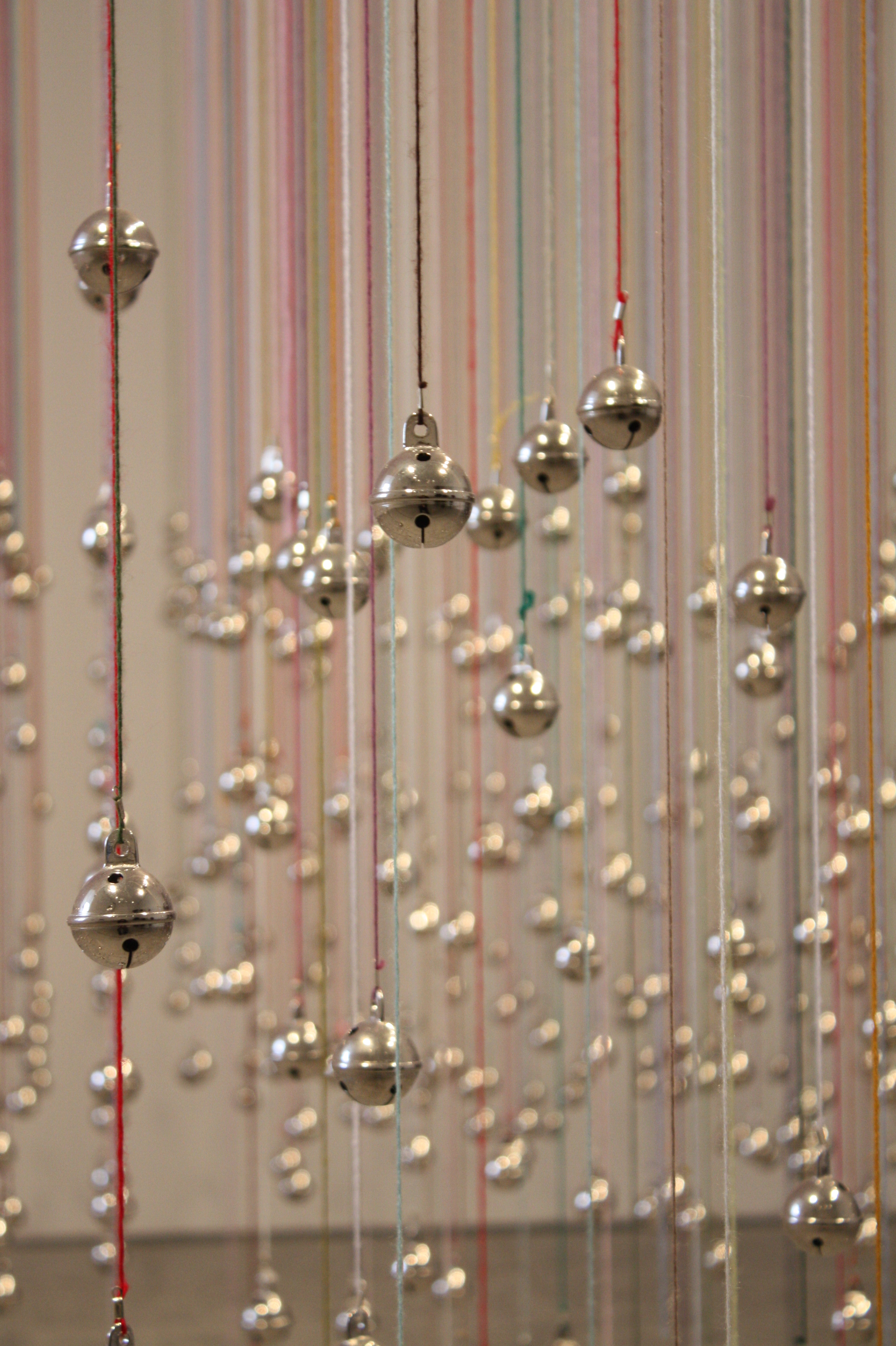 Museum Museo "Reina Sofia" Madrid Art Contemporary Picasso Sculpture Strange